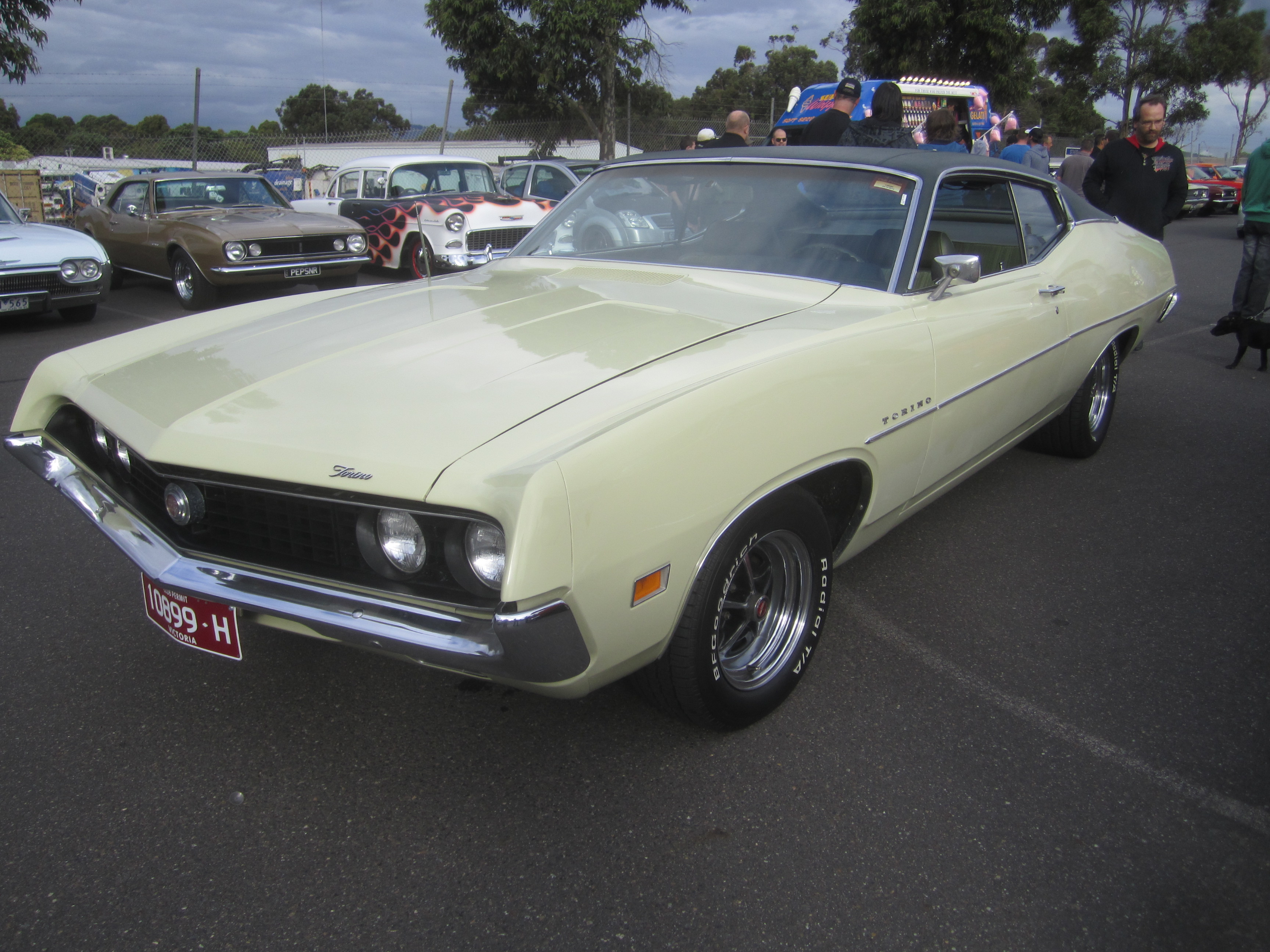 This is a 1970 Ford Torino fastback, which Ford call SportsRoof. The Torino 2-door Sportsroof model, was marketed as a low price alternative to the GT Torinos and was introduced mid-year. Ford Torinos was a were built from 1968-76. It got a new 'coke bottle' shape for 1970, it was a lot more aerodynamic looking. Base model was the Fairlane 500, then the Torino, and top was the Torino Brougham, They were available in 4 door Sedan , 2 door Hardtop and Wagon. Also available was the 2 door Sports Roof or Convertible GT and the 2 door Sports Roof Cobra (lower level of trim but more power). Engines; 250 6 cyl, 302 and 351 V8s also 360hp 429 V8 on the Cobra, 370hp on Cobra Jet and 375hp on Super Cobra Jet.